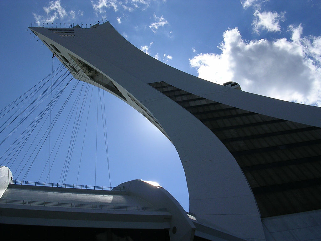 Photo of the montreal tower, part of the olympic stadium.